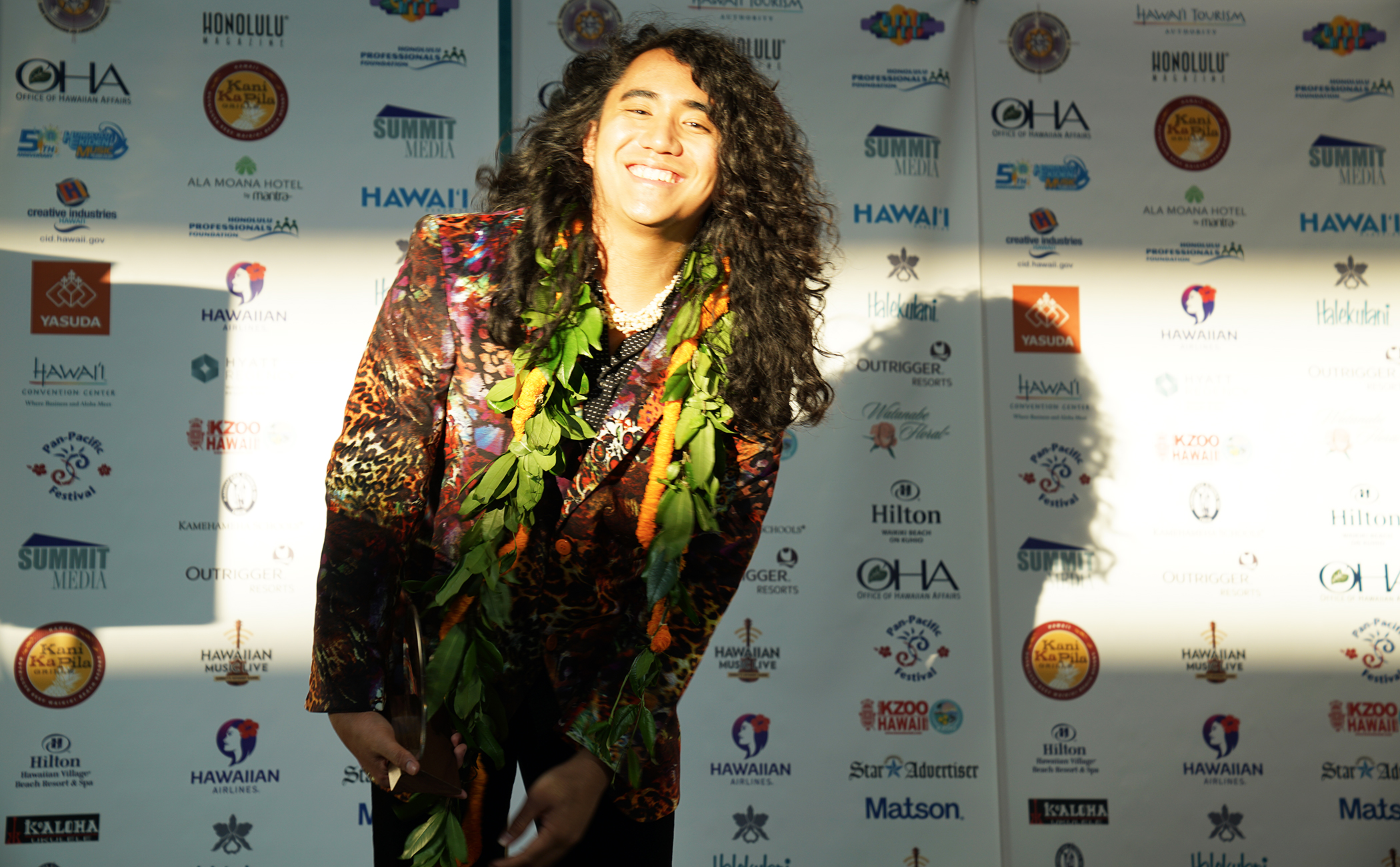 Kūkahi at the 40th Annual Nā Hōkū Hanohano Awards Ceremony in 2017 after winning the award for ʻAlternative Album of the Year.ʻ